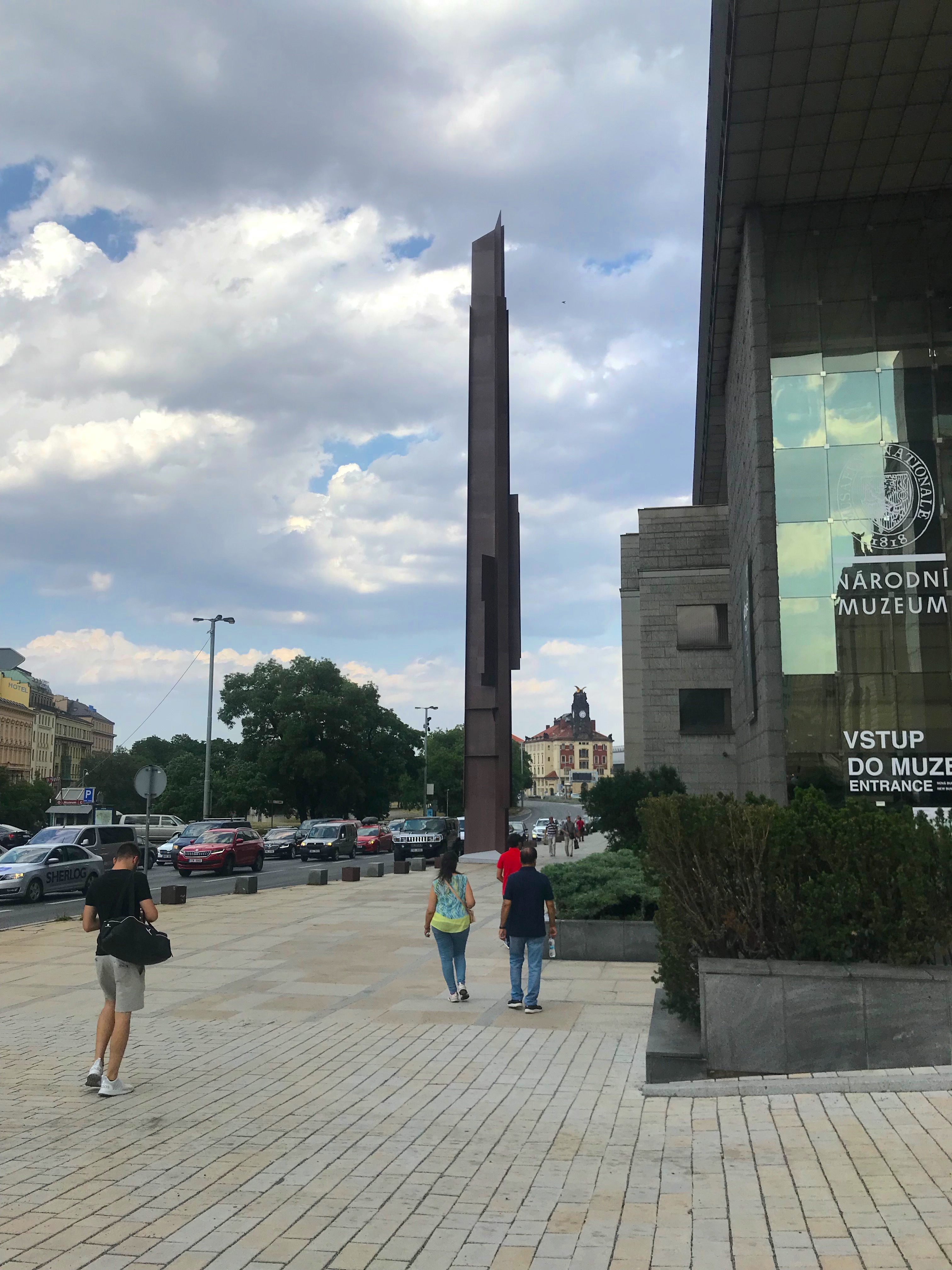 Palach pylon (Palachův pylon) next to National Museum Prague